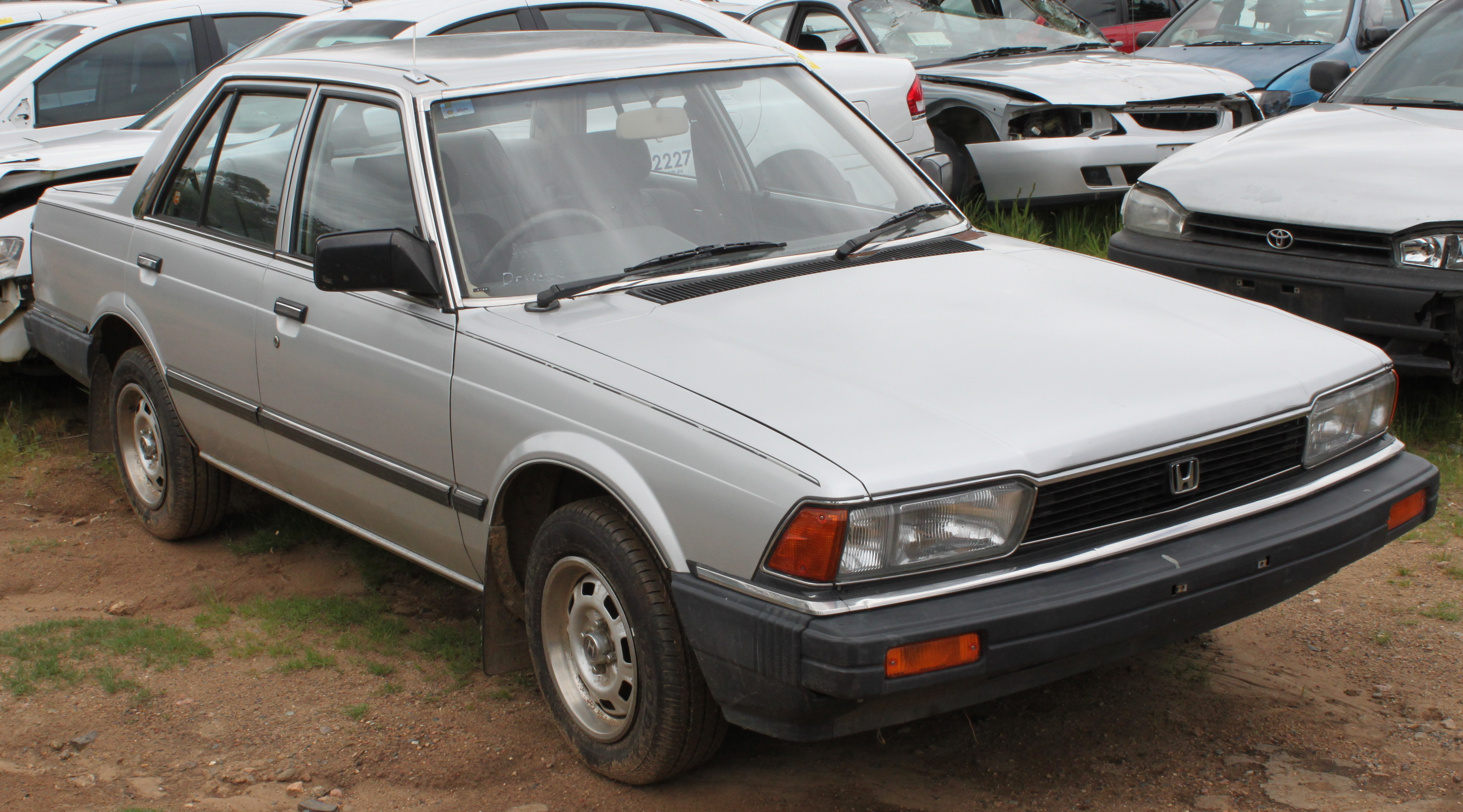 Flynn's Wrecking Yard, Cooma NSW